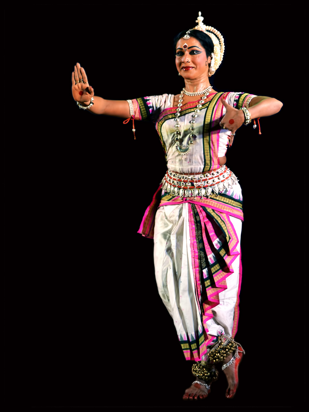 Odissi dancer Sujata Mohapatra